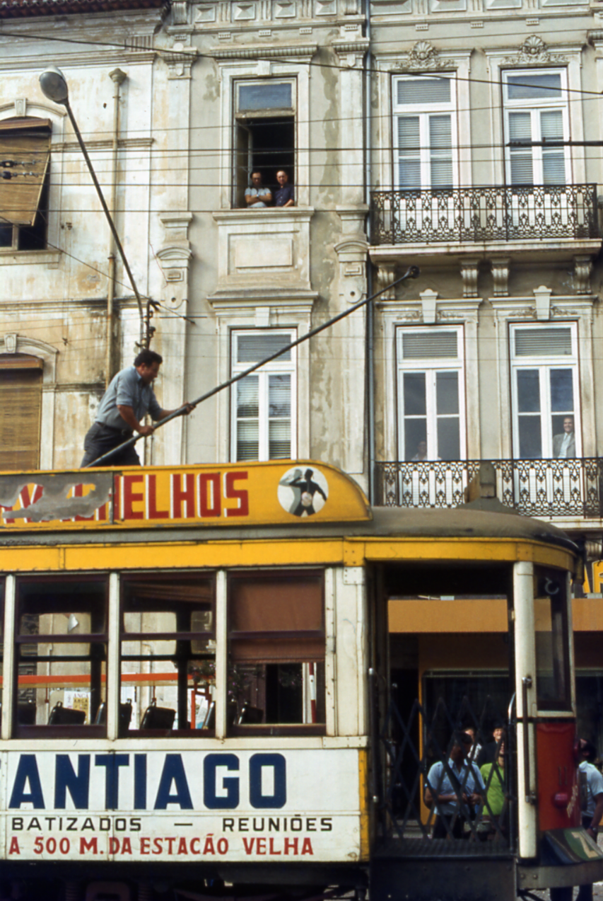 Tram in Coimbra, repositioning of a dislocated trolley pole (not a pantograph)